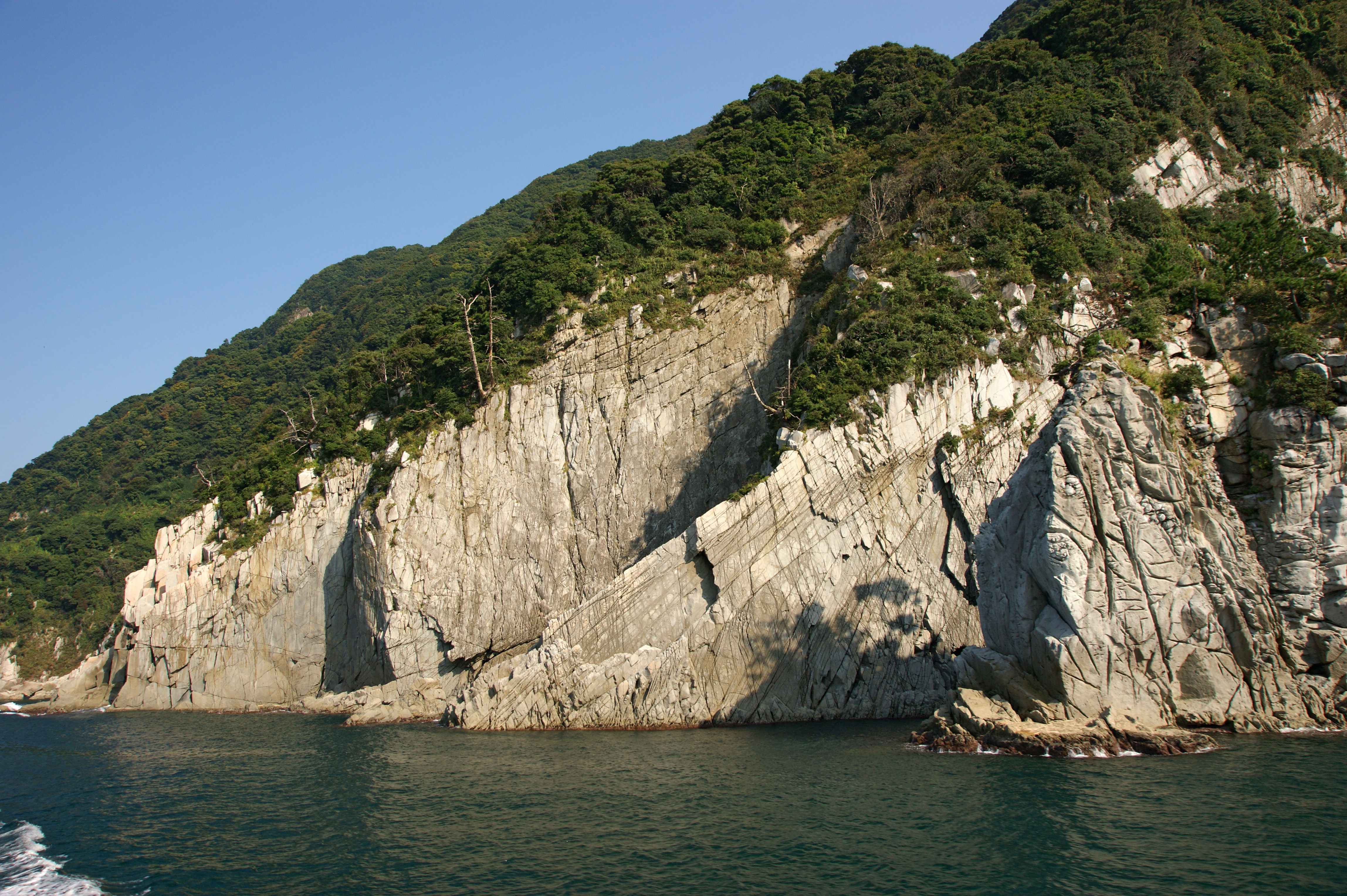 Sotomo, Obama, Fukui prefecture, Japan